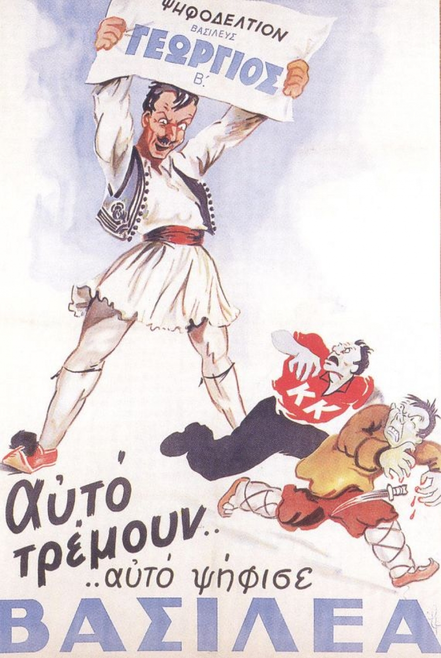 A pro-monarchist poster for the Greek referendum of Sept. 1st, 1946.